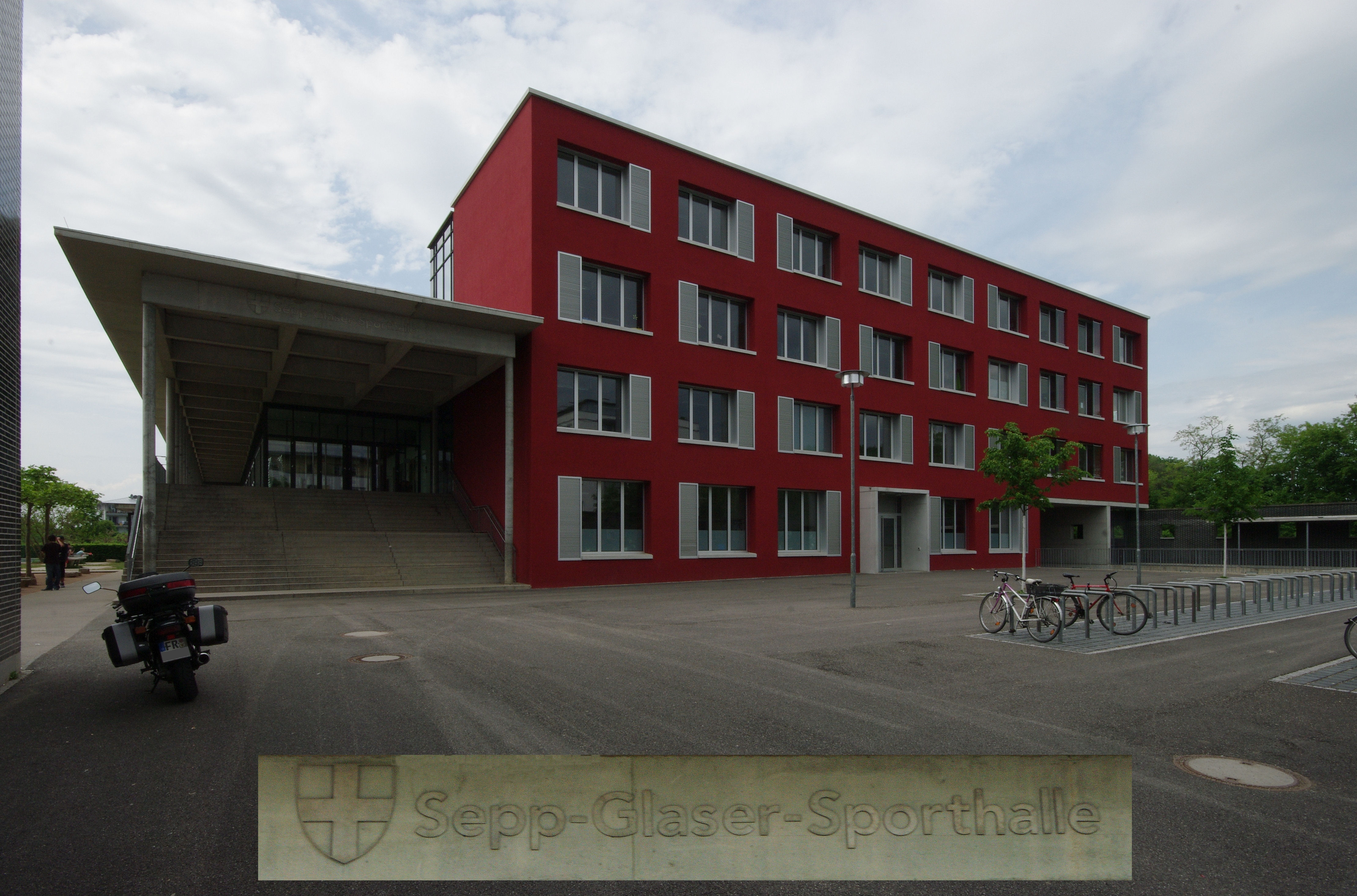 Sepp-Glaser-Sporthalle